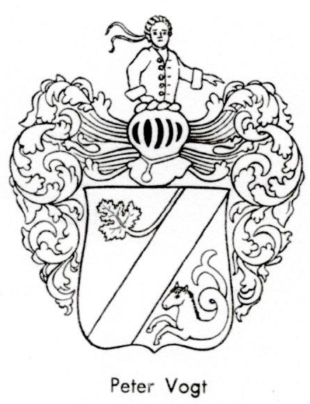 Peter Vogt, appeal court judge in Christiania, Norway. Seal 1723